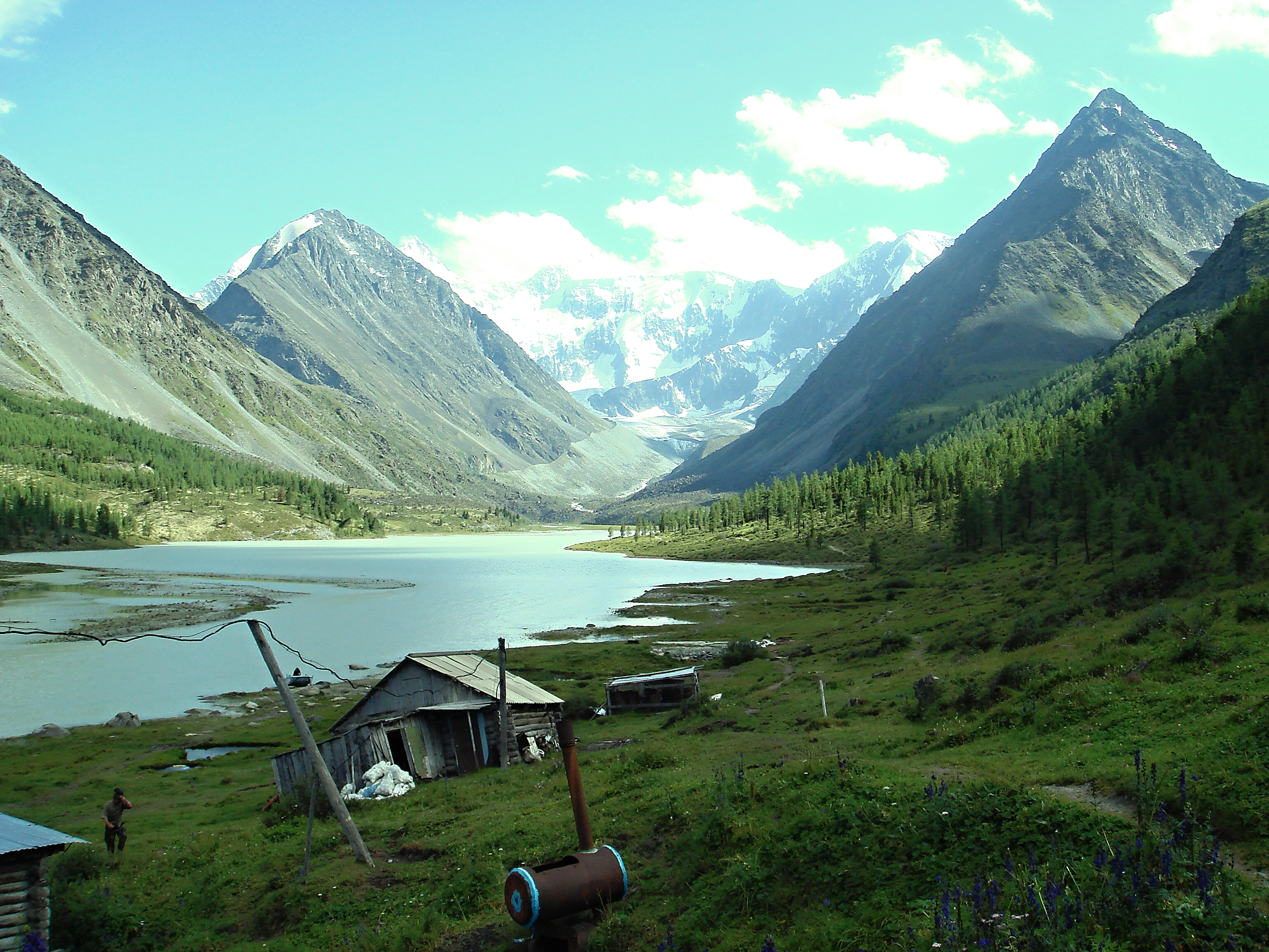 Lake Akkem with Mt Belukha and the Akkem glacier in the background (Altay Republic, Russia).